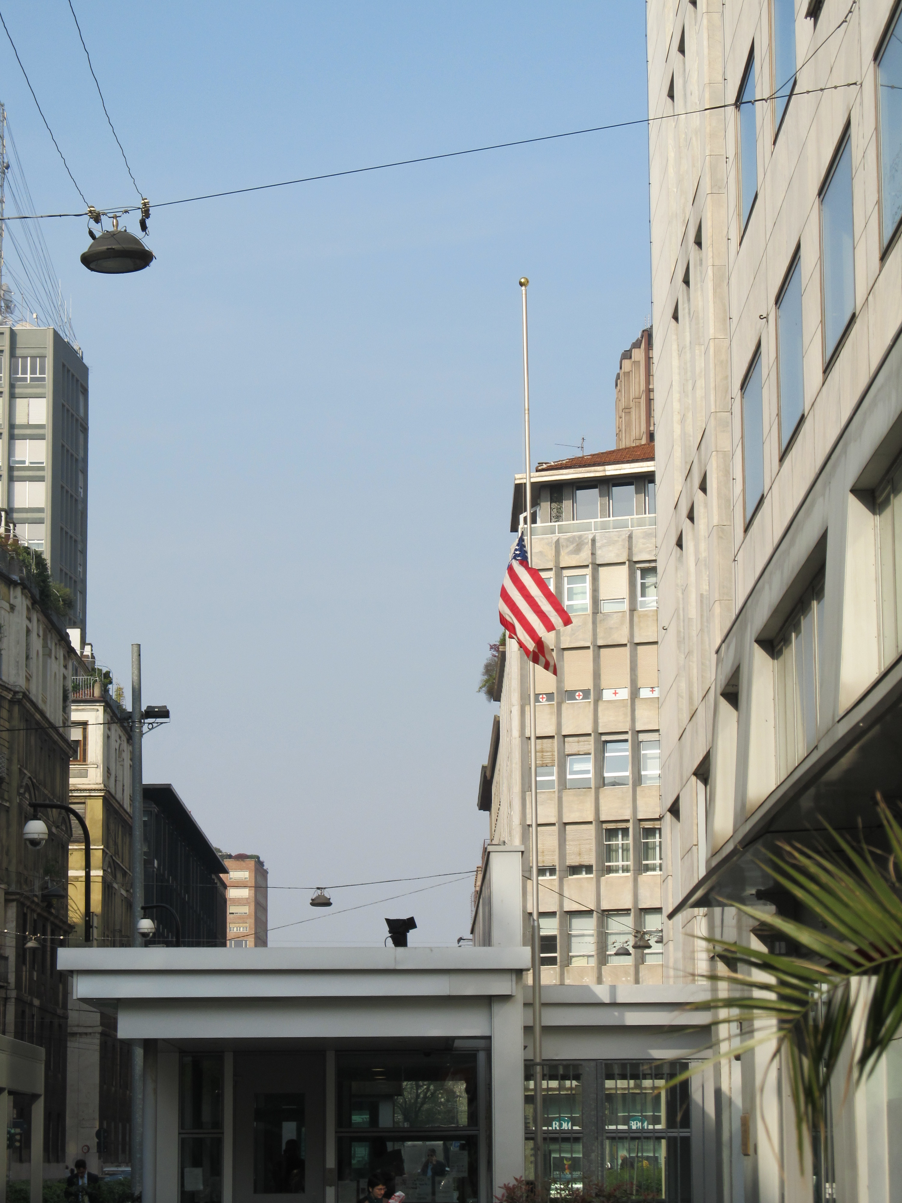 US flag flying at half mast in US Consulate in Milan, Italy, due the 2013 Boston Marathon bombings.